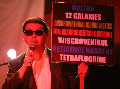 Frank Chu performing spoken word. Photo from Laughing Squid's collection of photos from the Ask Dr. Hal Show on 20 March 2006